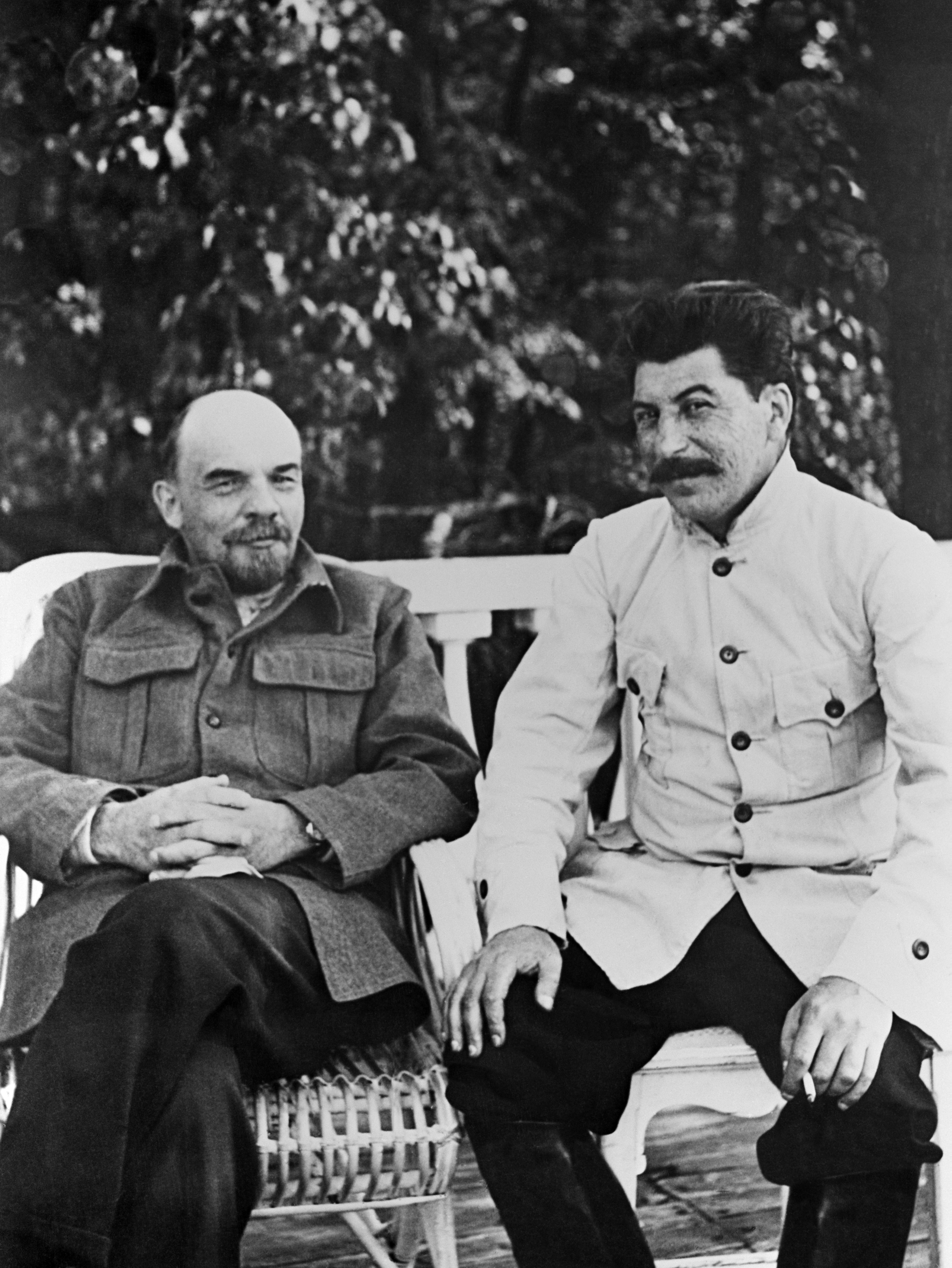 Stalin and Lenin at Gorki, just outside Moscow, September 1922. Photograph by Maria Ulyanova, Lenin’s sister. Stalin had images of his visit published to show Lenin’s supposed recovery—and his own proximity to the Bolshevik leader.